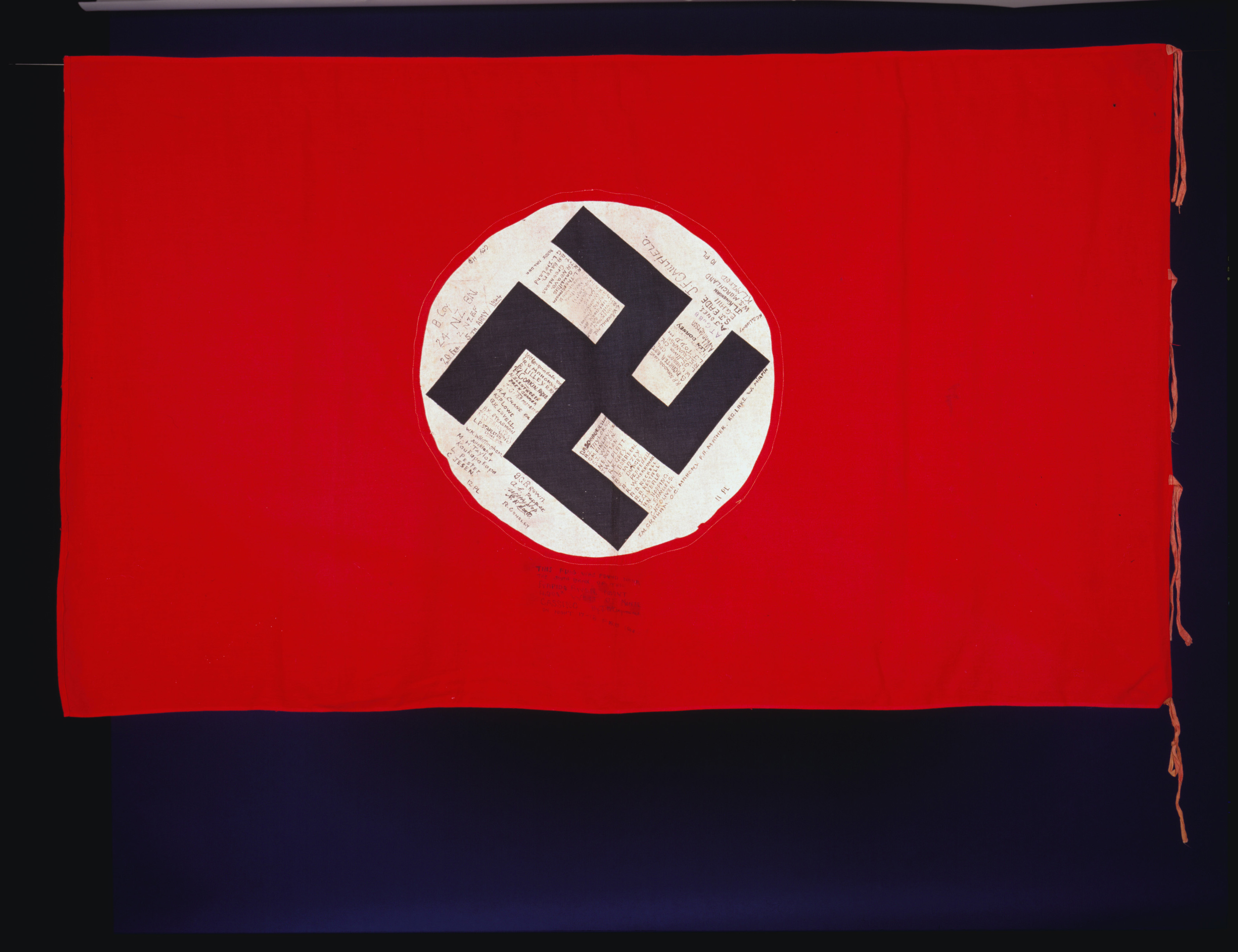 German flag with swastika found near Cassino and autographed by members of B Company, 24 Battalion, WW2